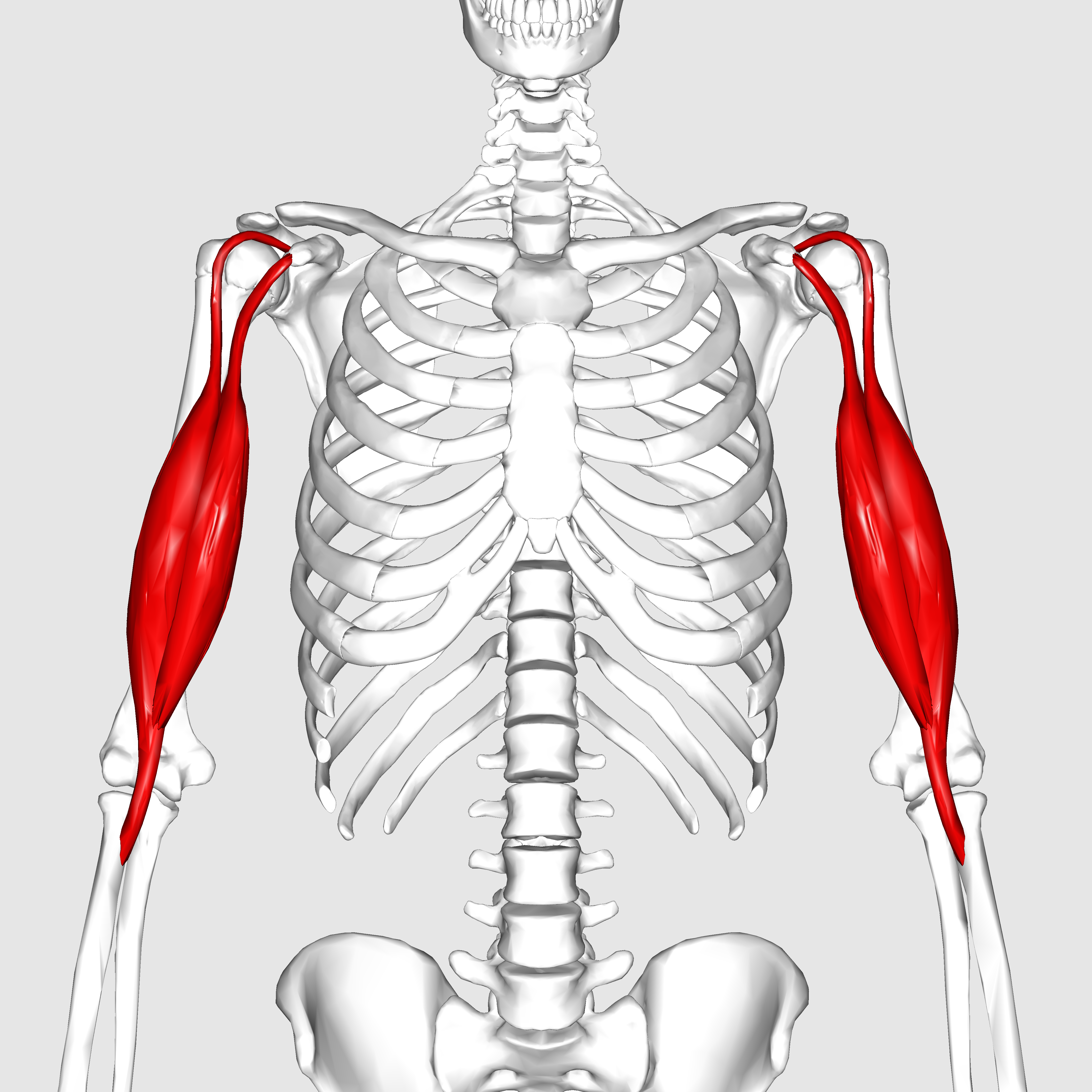 Biceps brachii muscle.